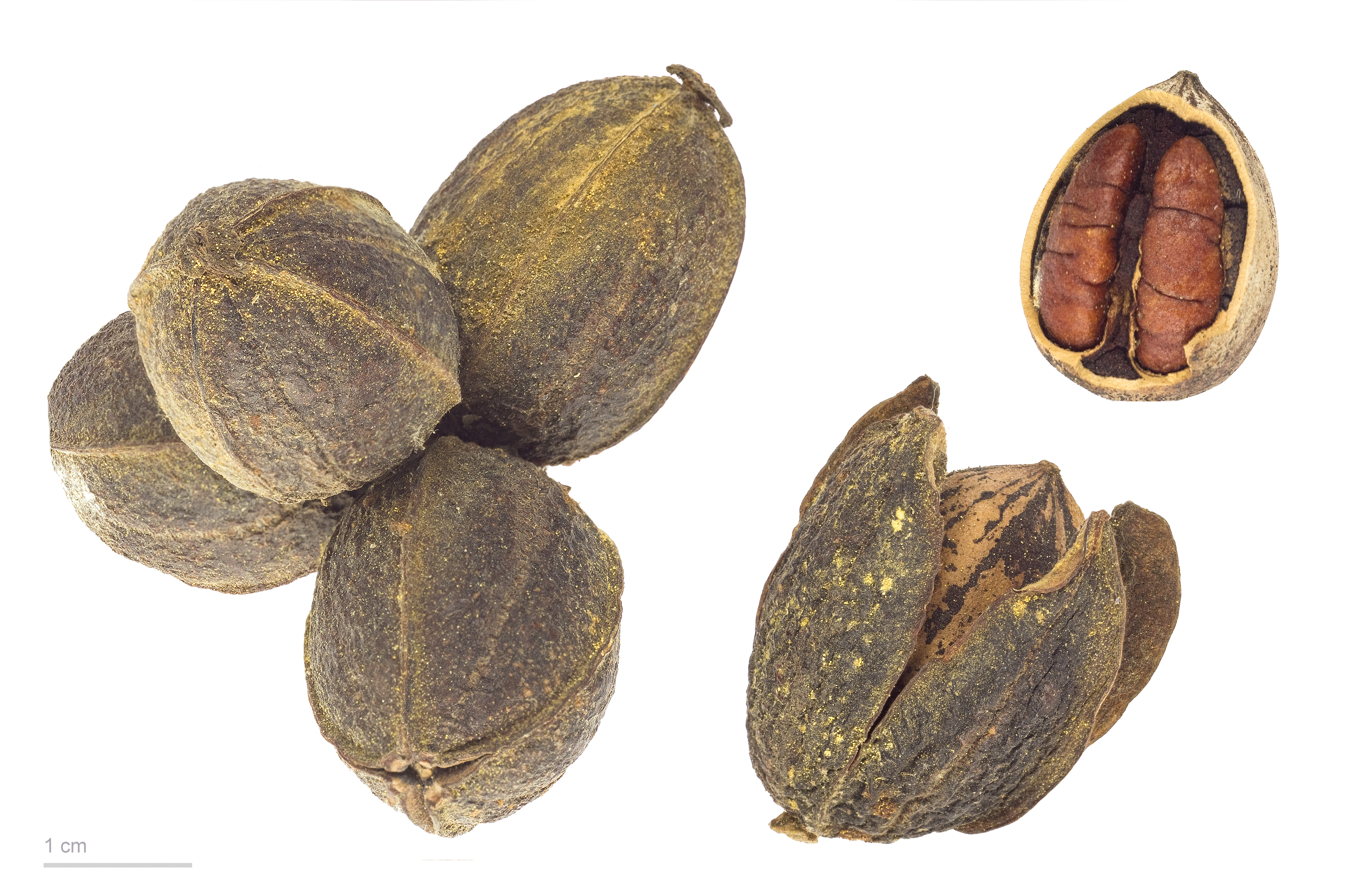 Pecan , fruits and seeds